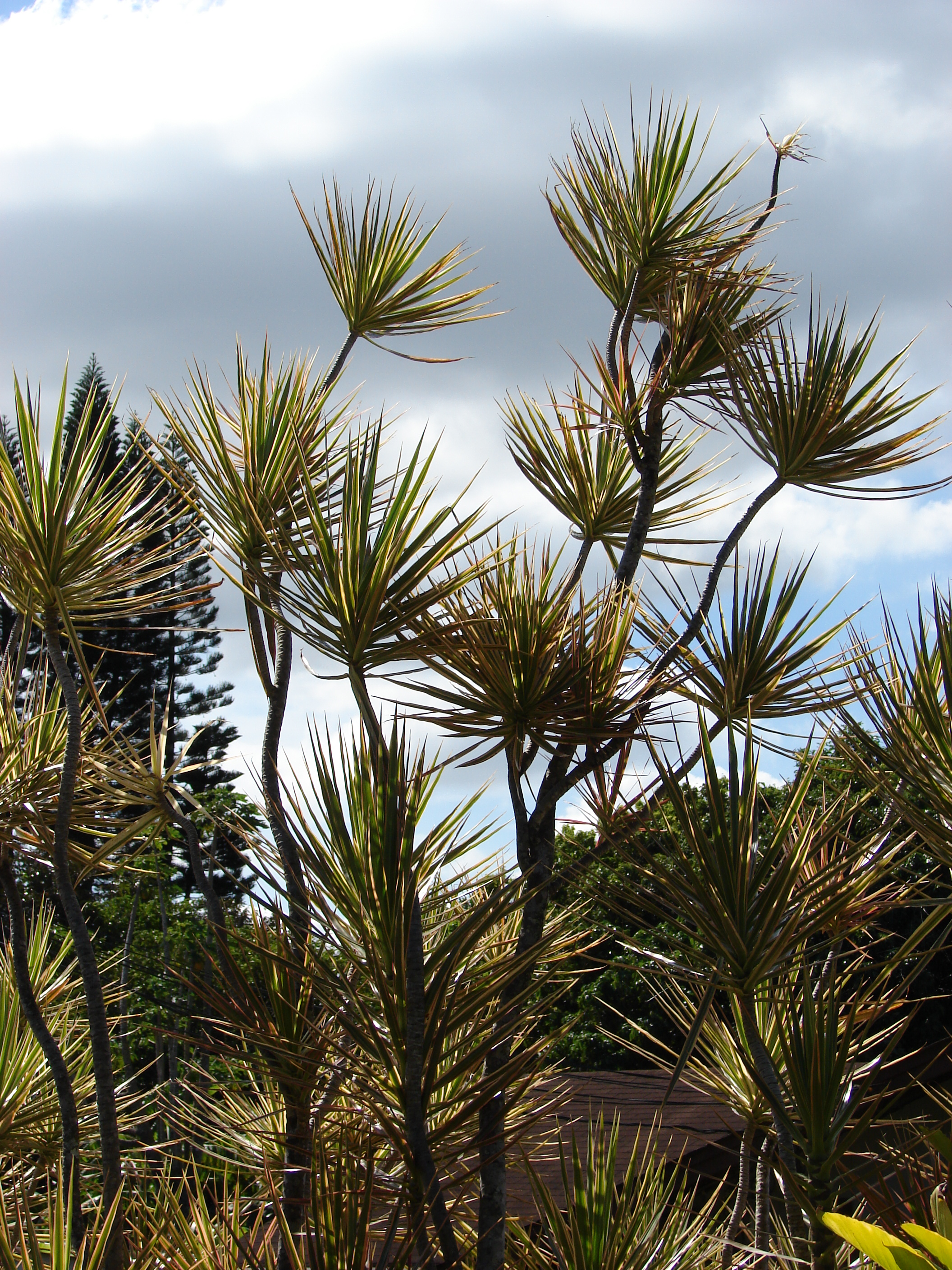 Dracaena marginata (variegated leaves). Location: Maui, Haiku